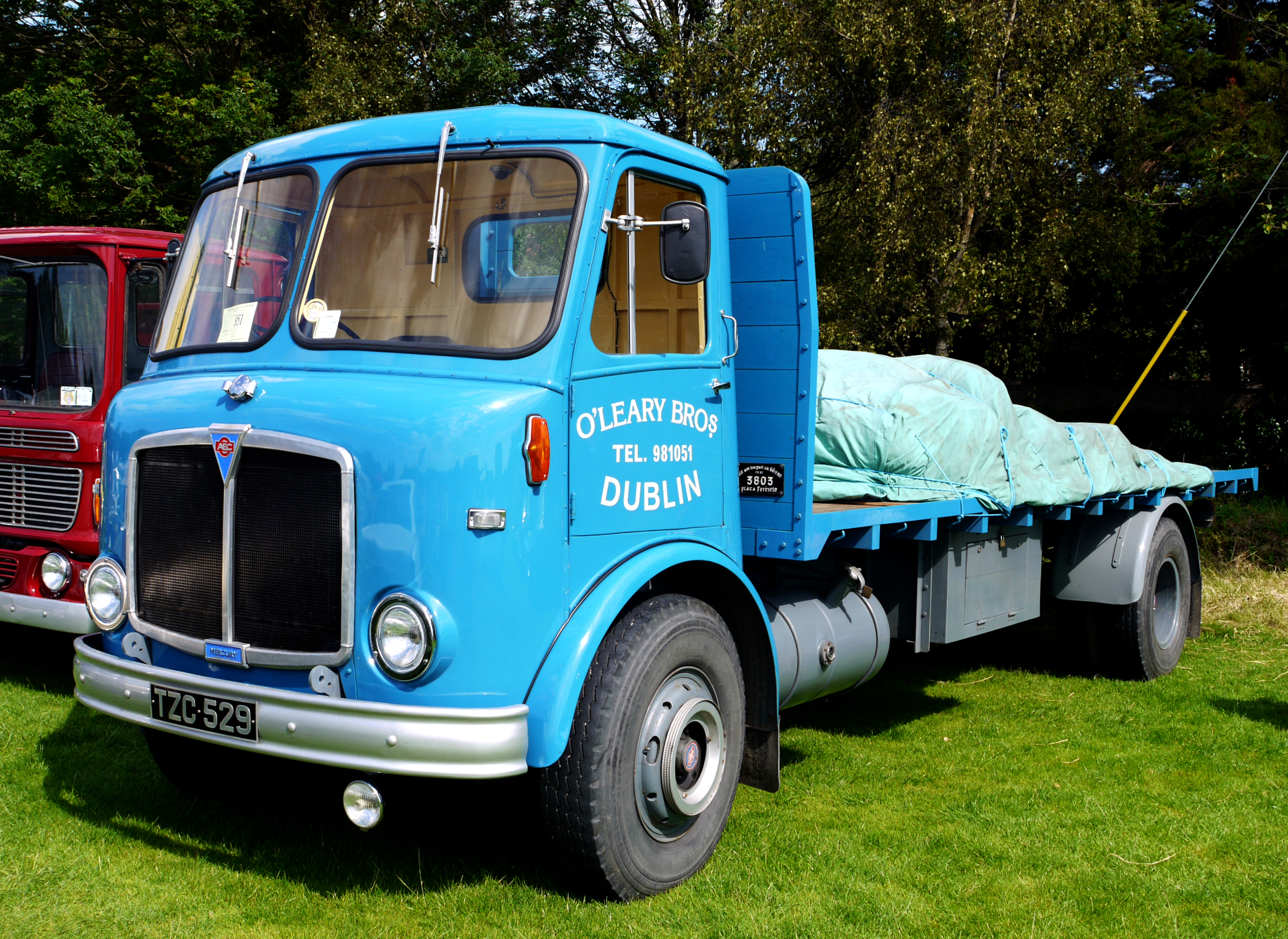 1962 AEC Mercury.